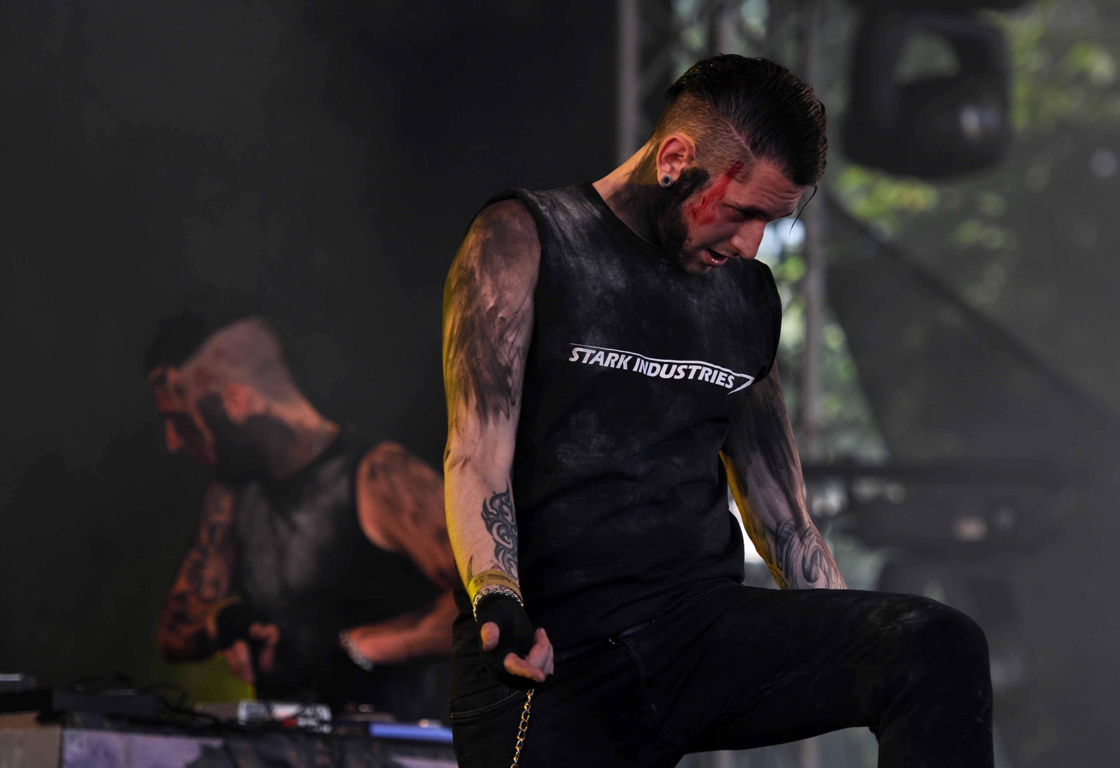 [x]-Rx at the Amphi Festival 2013, Cologne, Germany